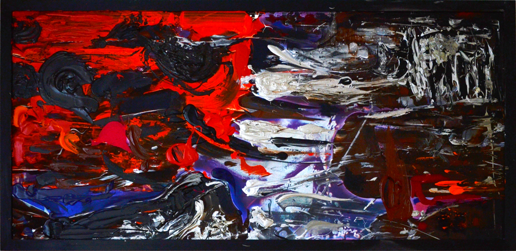 Vladimír Kopecký, Flares, 2013